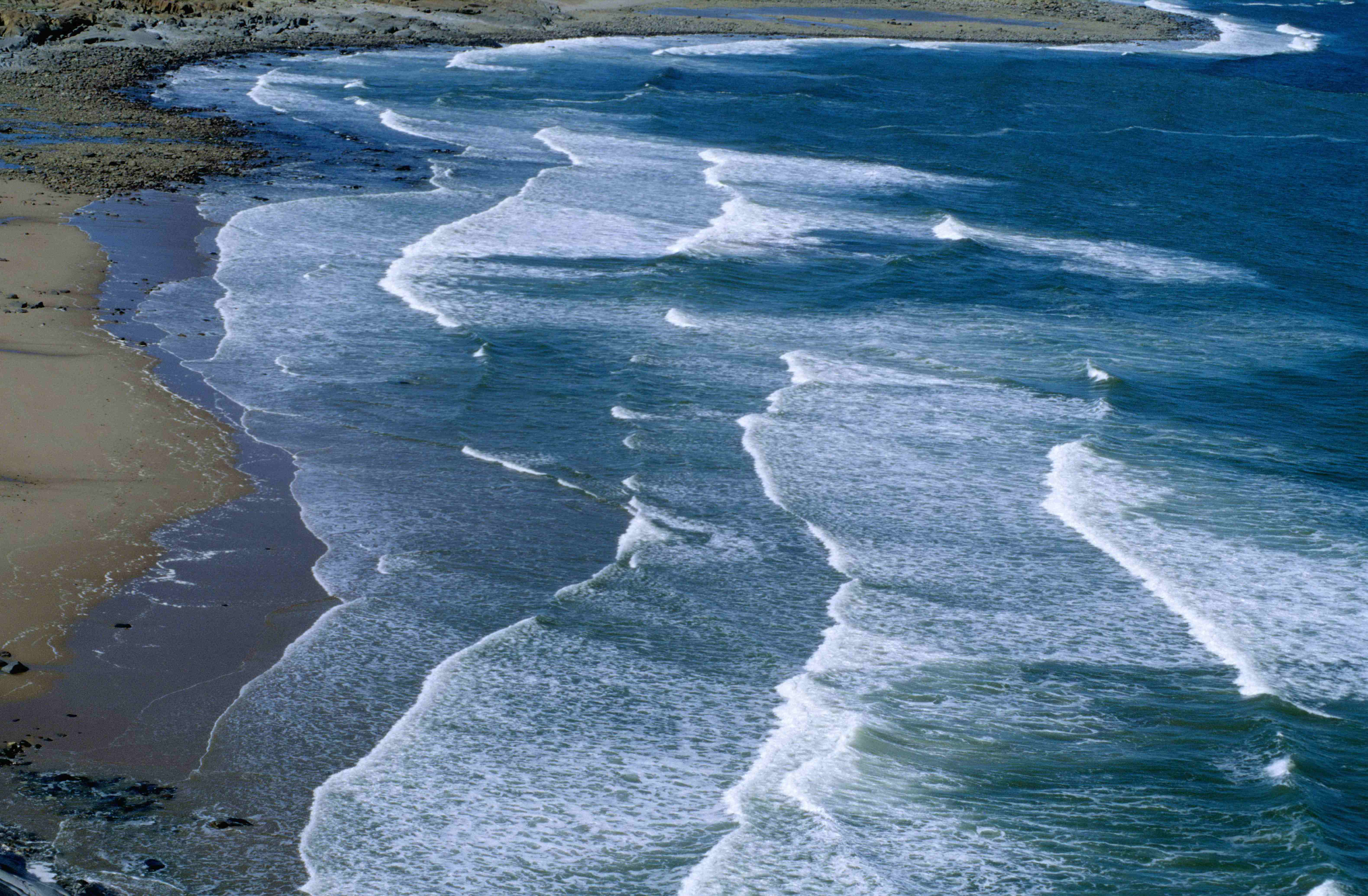 Hudson Bay waves (Wapusk National Park, Manitoba, Canada)